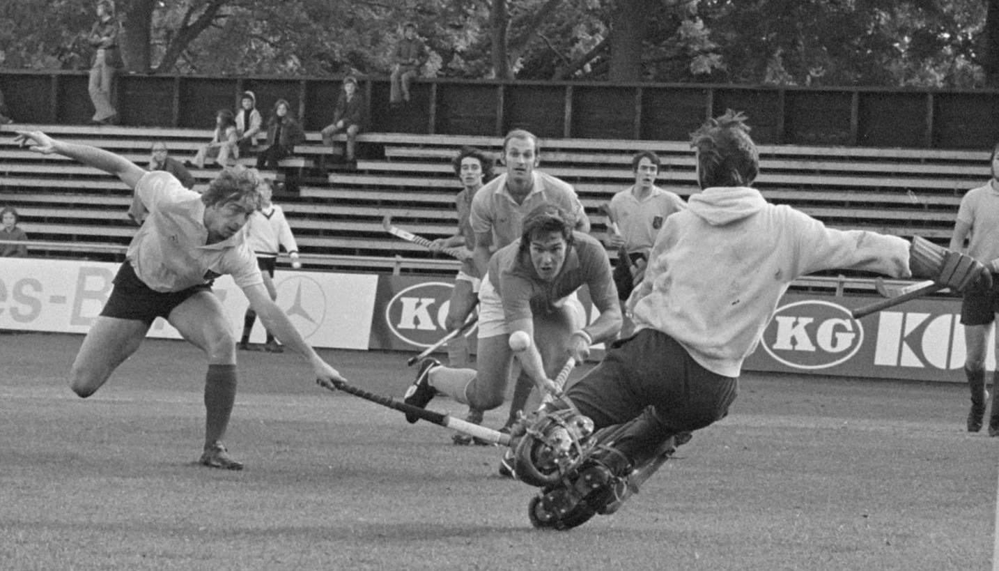 Netherlands-Belgium 6-0; Hans Kruize (center) scores the 1st goal. Right: Smissaert, left: Van Tyckom